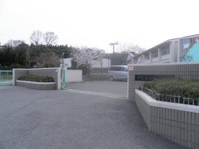 Midorigaoka elementary school Mikicity The gate for visitor, teachers